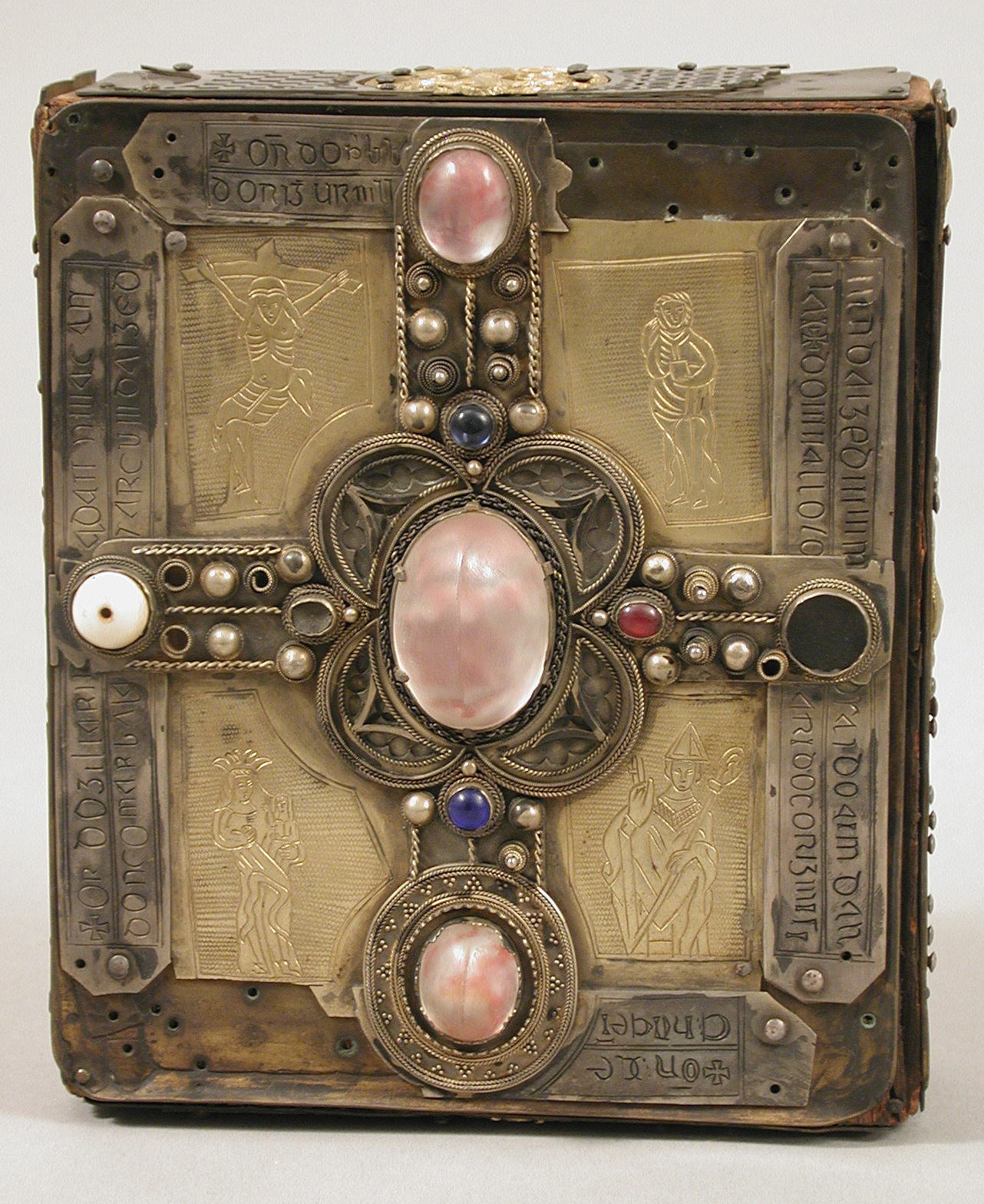 Irish; Book or shrine; Reproductions-Metalwork